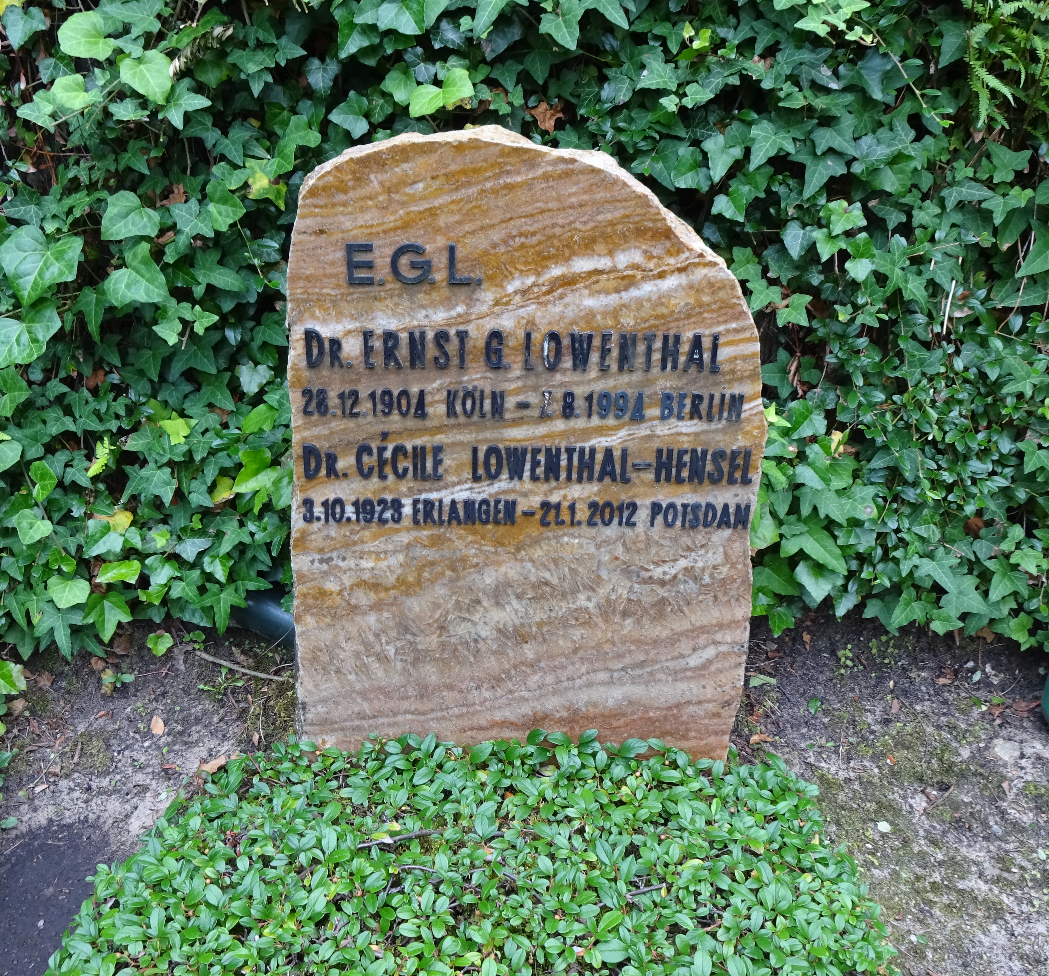 Grave of German historians Cécile Lowenthal-Hensel and Ernst G. Lowenthal at Friedhof Heerstraße in Berlin-Westend